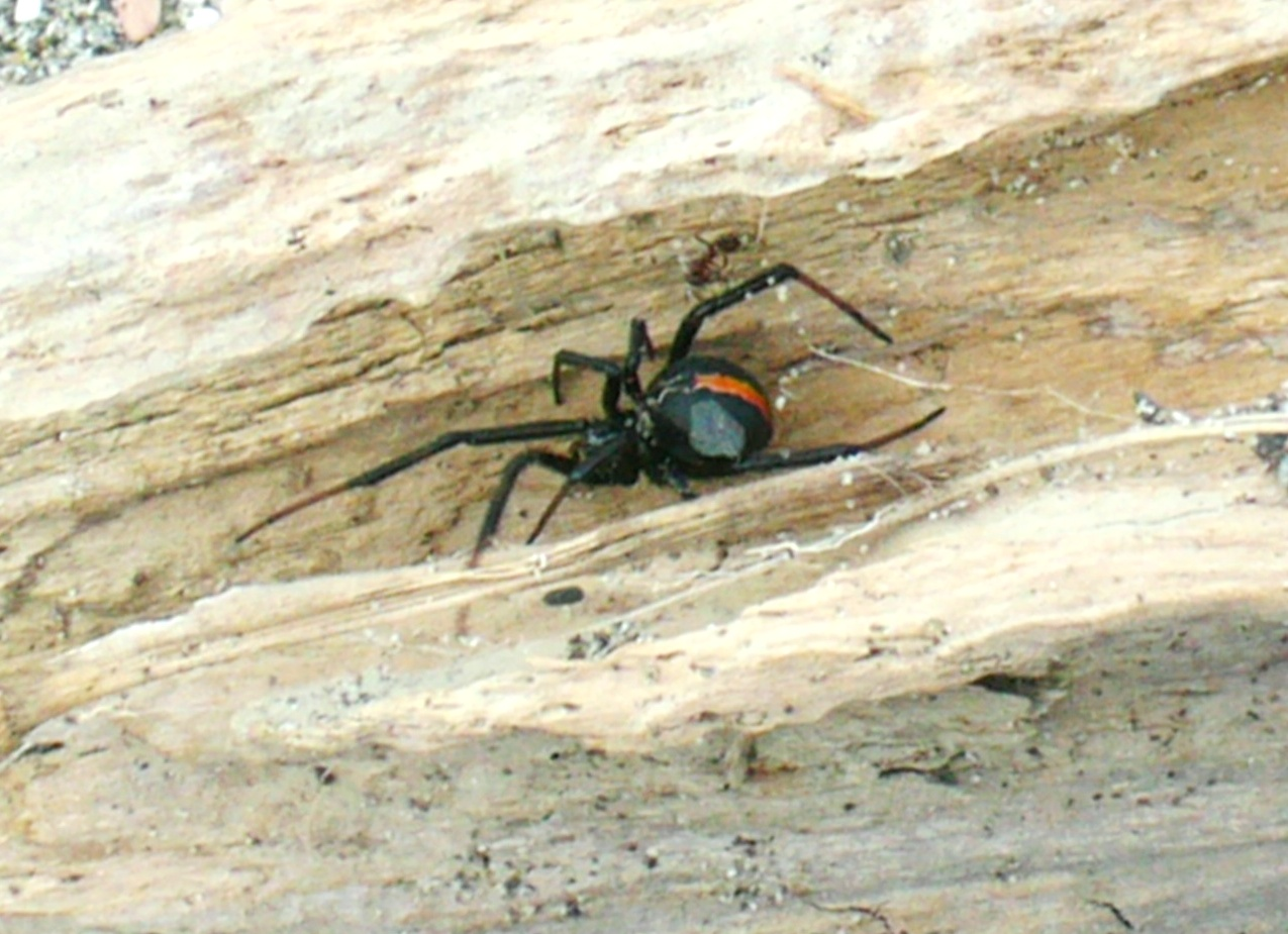 This is a mature female Latrodectus katipo, found living under driftwood at Himatangi Beach, Manawatu, New Zealand.